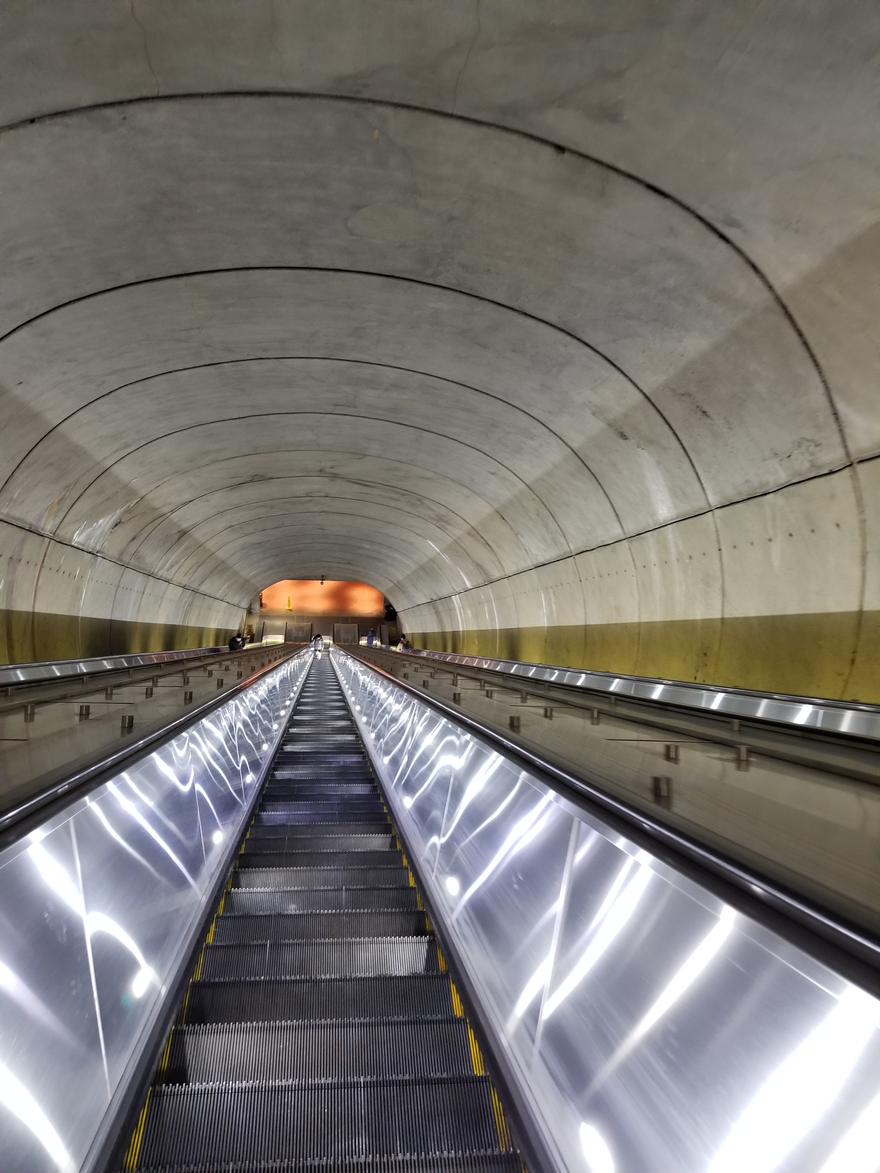 Elevators at Woodley Park station, Mar 2019